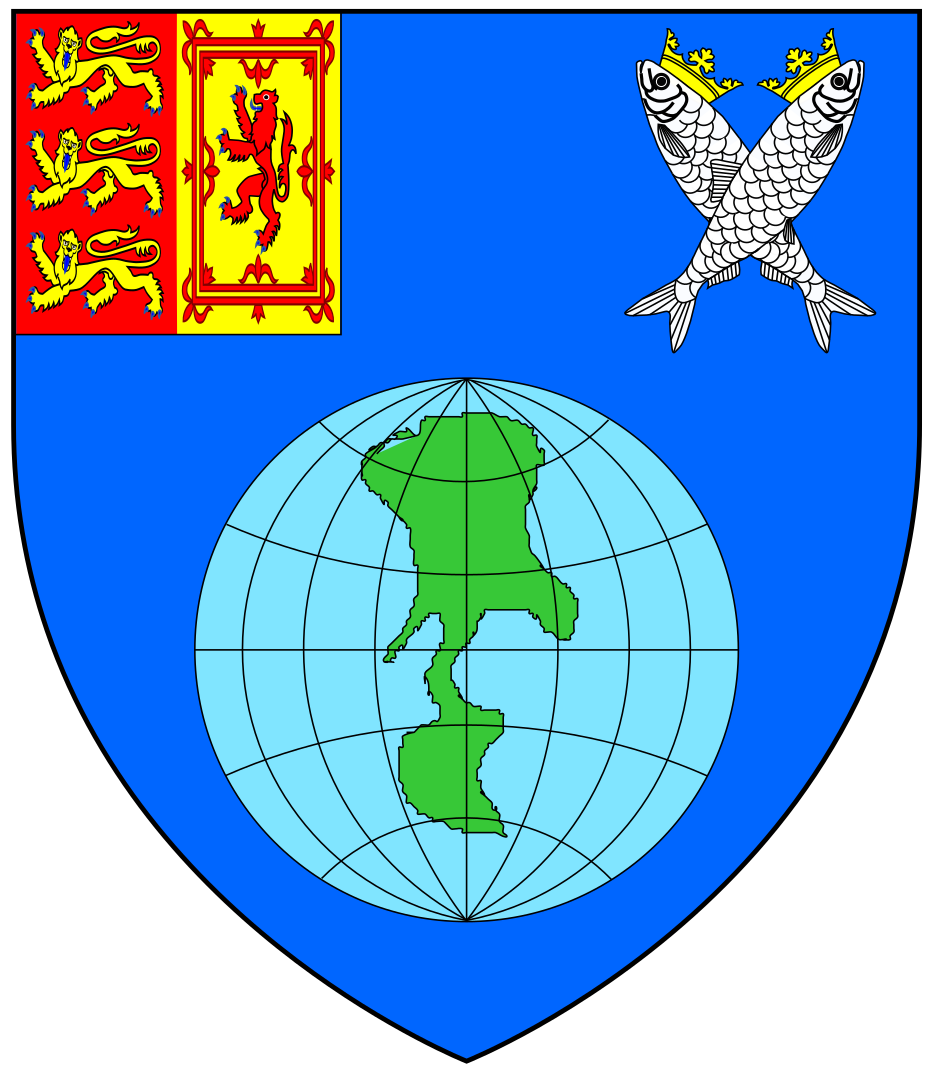 Coat of arms of the South Sea Company. The armorials of the South Sea Company according to a grant of arms dated 31 October 1711 were: Azure, a globe whereon are represented the Straits of Magellan and Cape Horn all proper and in sinister chief point two herrings haurient in saltire argent crowned or, in a canton the united arms of Great Britain. Crest: A ship of three masts in full sail. Supporters, Dexter: The emblematic figure of Britannia, with the shield, lance etc all proper; sinister: A fisherman completely clothed, with cap boots fishing net etc and in his hand a string of fish, all proper.[1] Herring outline traced from commons File:FMIB 41943 Sea Herring (Clupea harengus Linnaeus).jpeg